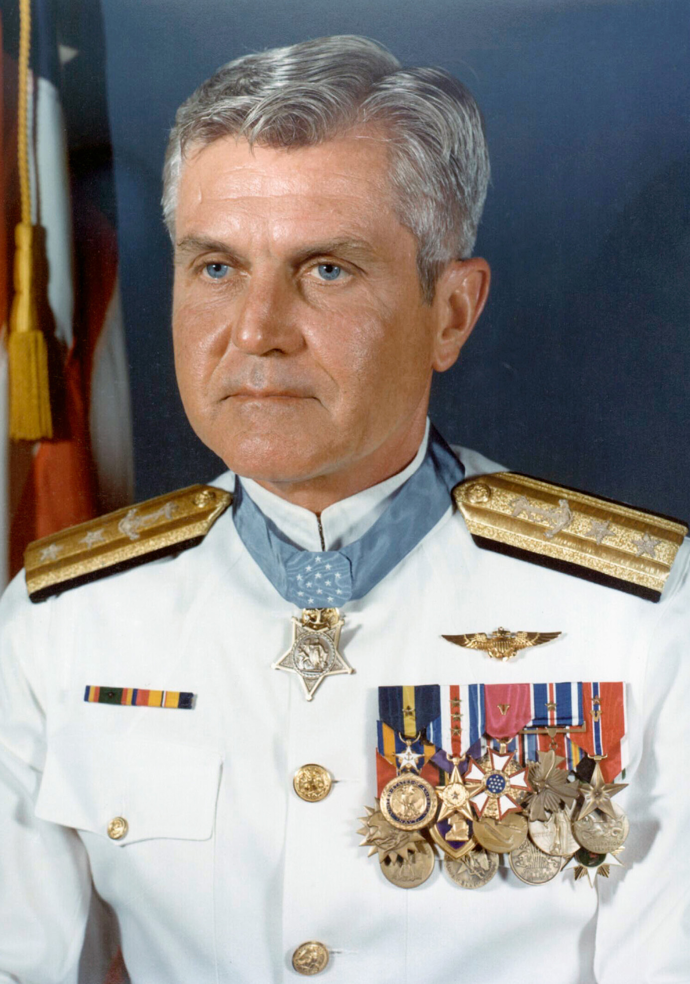 Formal portrait of Rear Adm. James B. Stockdale in full dress white uniform. He is one of the most highly decorated officers in the history of the Navy, wearing twenty six personal combat decorations, including two Distinguished Flying Crosses, three Distinguished Service Medals, two Purple Hearts, four Silver Star medals and three Bronze Star medals in addition to the Medal of Honor. Later he obtained the rank of Vice Admiral, and is the only three-star Admiral in the history of the Navy to wear both aviator wings and the Medal of Honor.